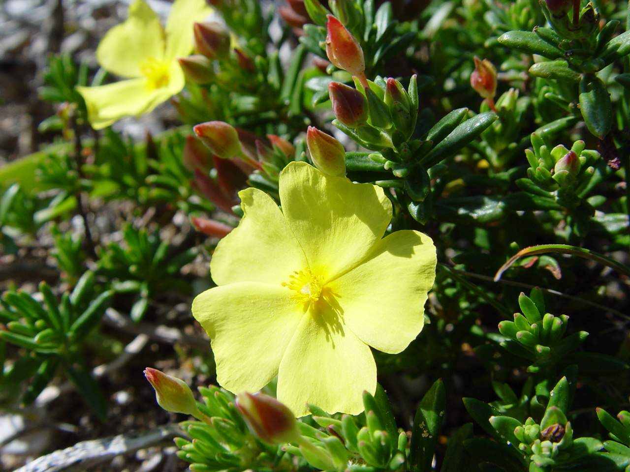 Halimium commutatum (family: Cistaceae).